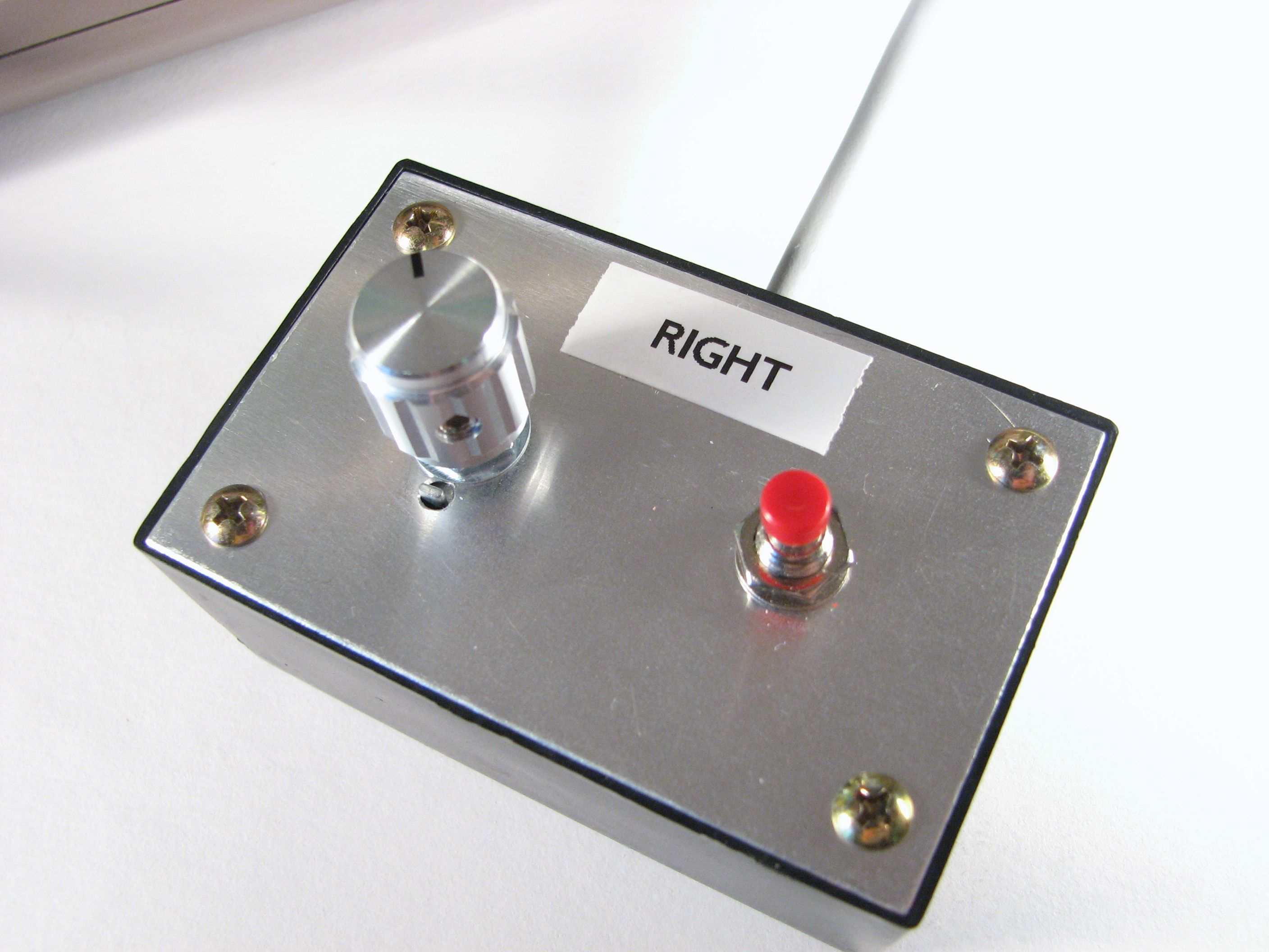 A modern recreation of the 1958 video game "Tennis For Two." Read more about this project here.